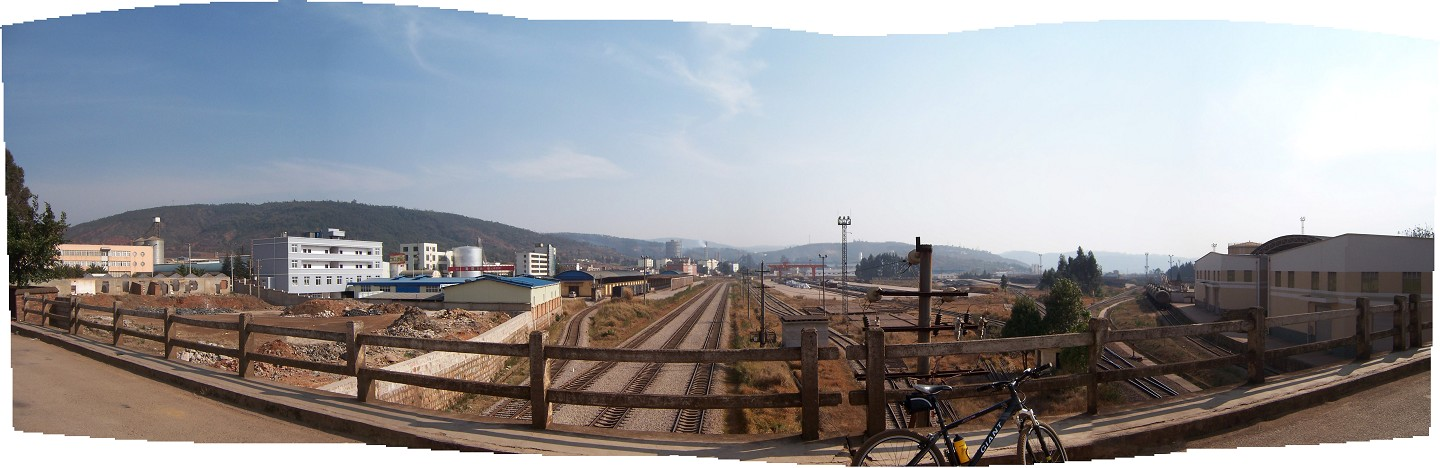 A view of a train station (sort of a "southern addition" to Yuxi South Station, about 1 km south of it) from the Zhongcun Bridge (over which township route 132 runs)